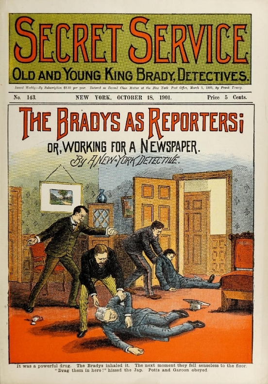 The Bradys as reporters, or, Working for a newspaper (1901), a book cover.